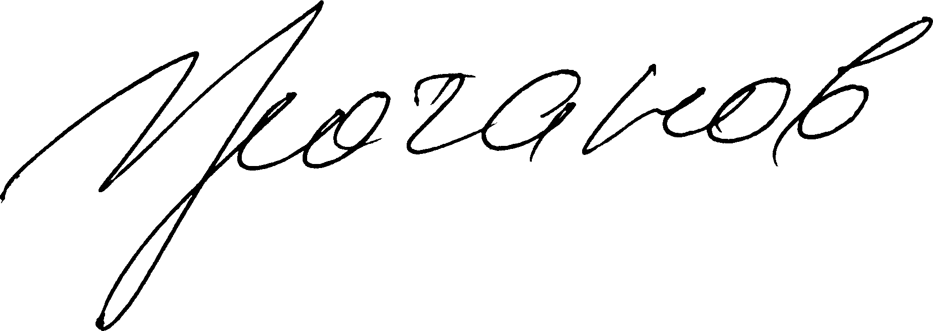 Signature of Gennady Zyuganov.